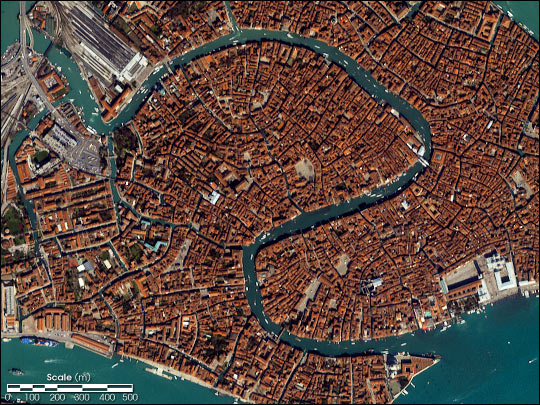 Grand Canal, Venice.